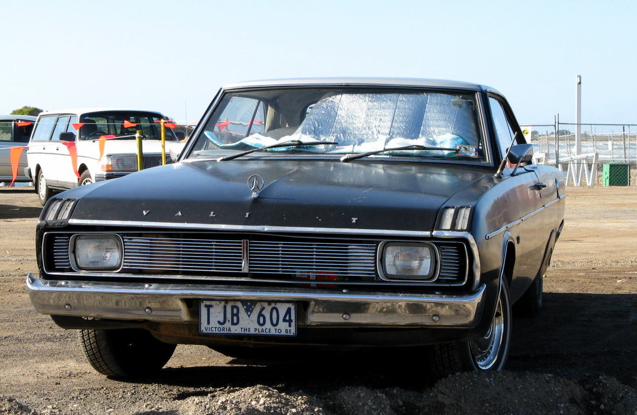 1960s Chrysler Valiant